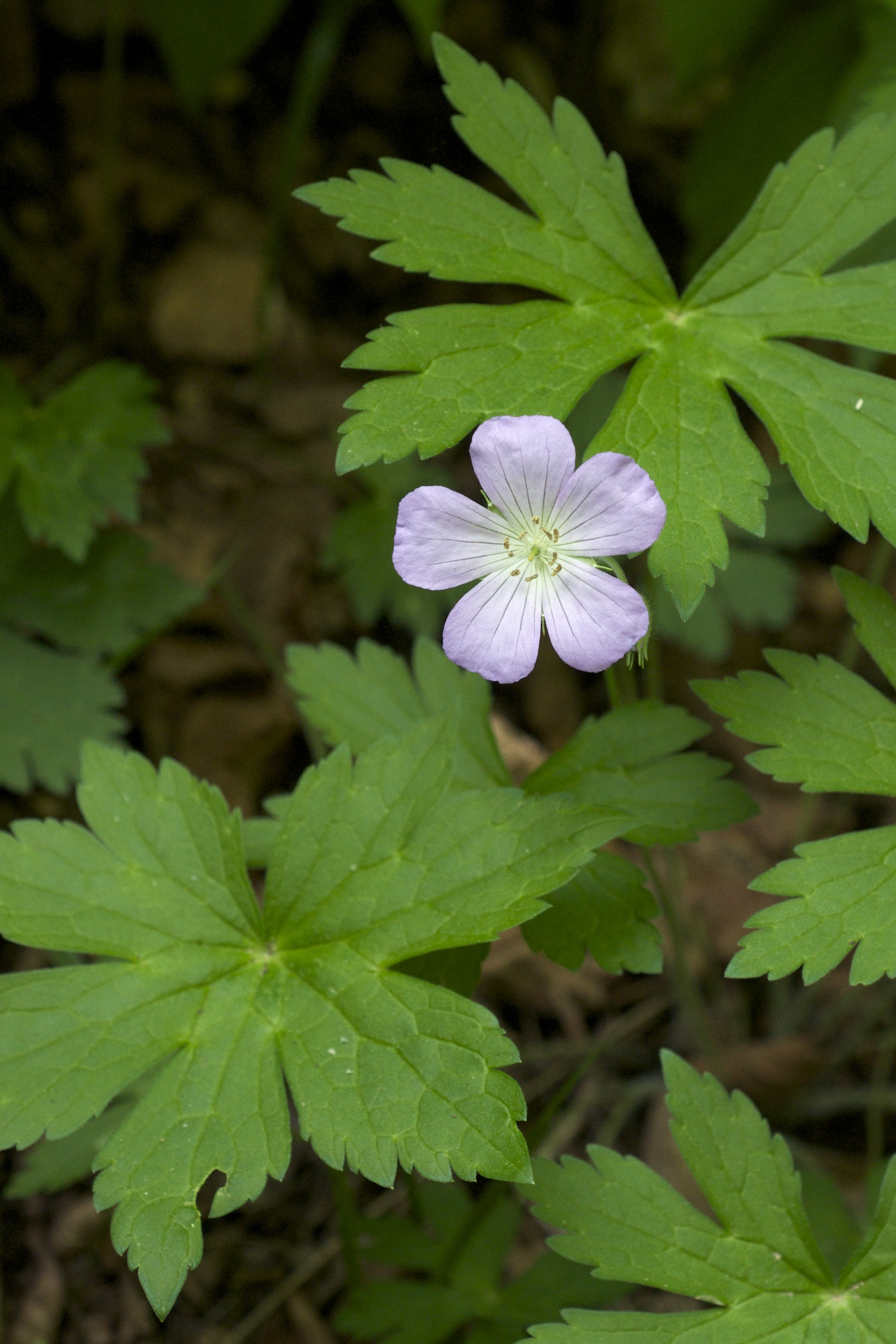 Species from eastern North America Common name: Spotted Geranium Photographed in Leatherwood Lake Park, Eureka Springs, Arkansas